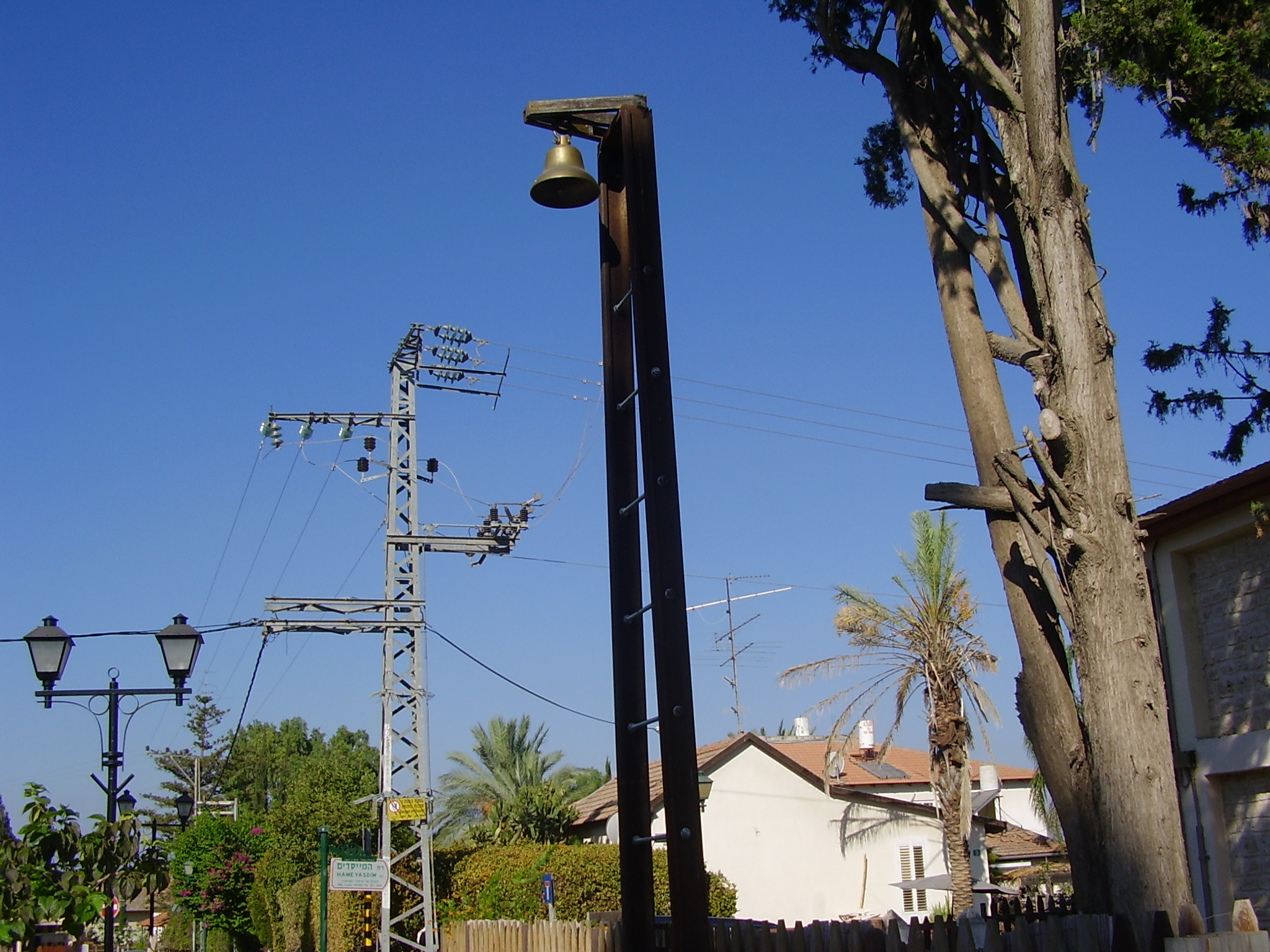 the bell of mazkeret batya פעמון המושבה מזכרת בתיה